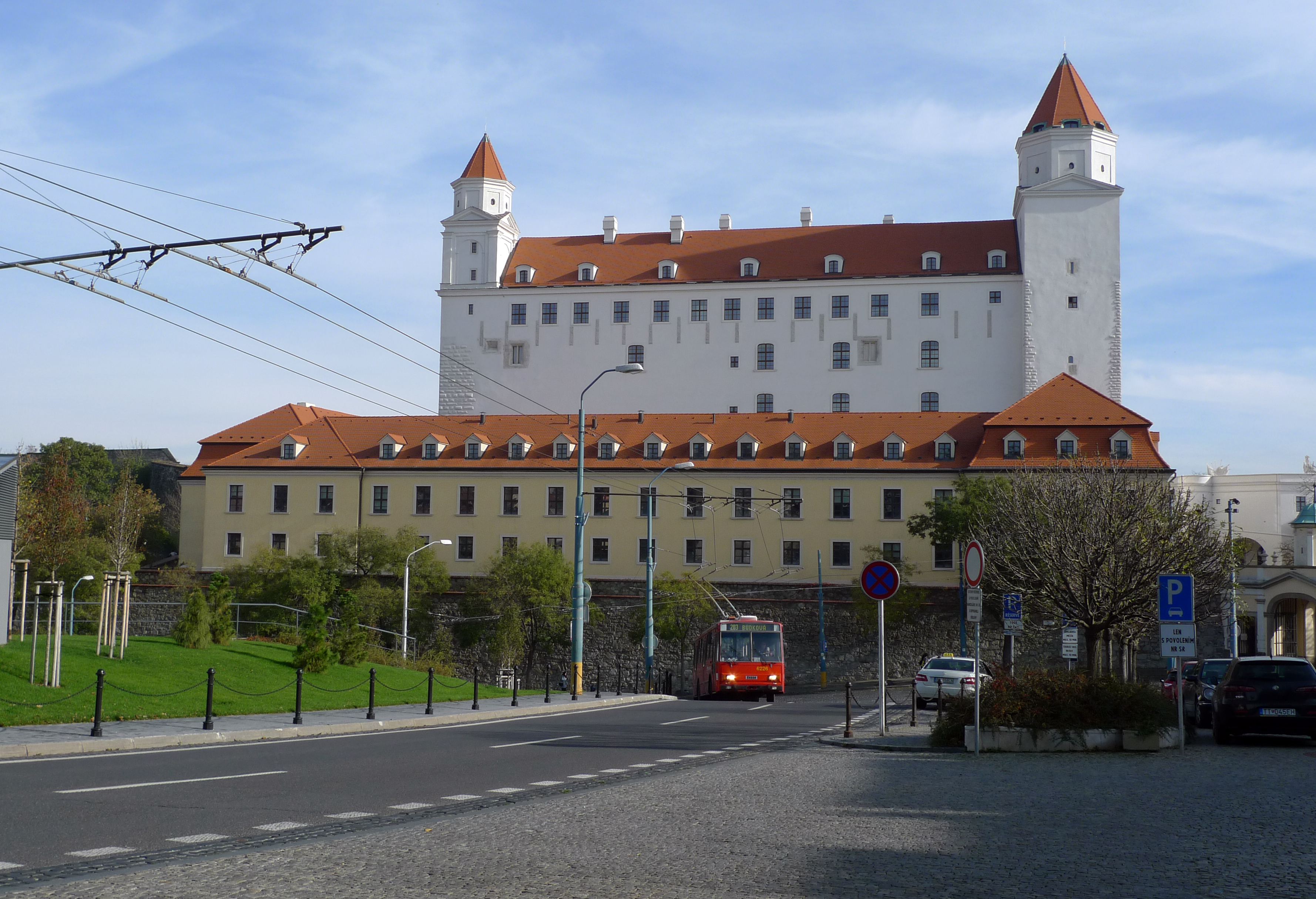 Bratislava Castle from west side.